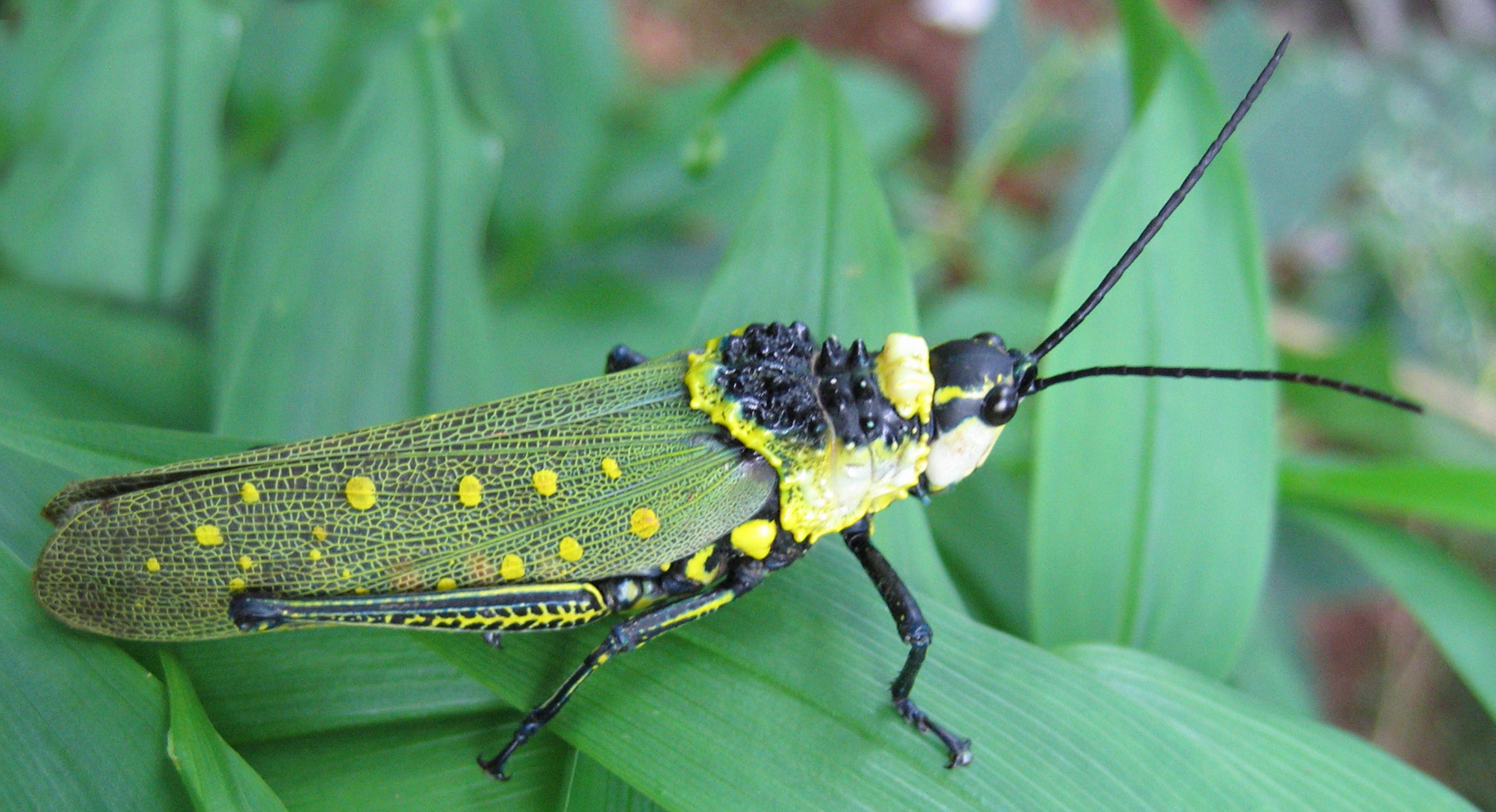 Aularches miliaris